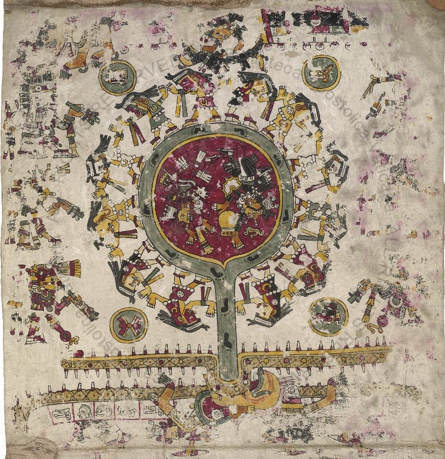 Codex Borgianus page 39 from Vatican Library scan